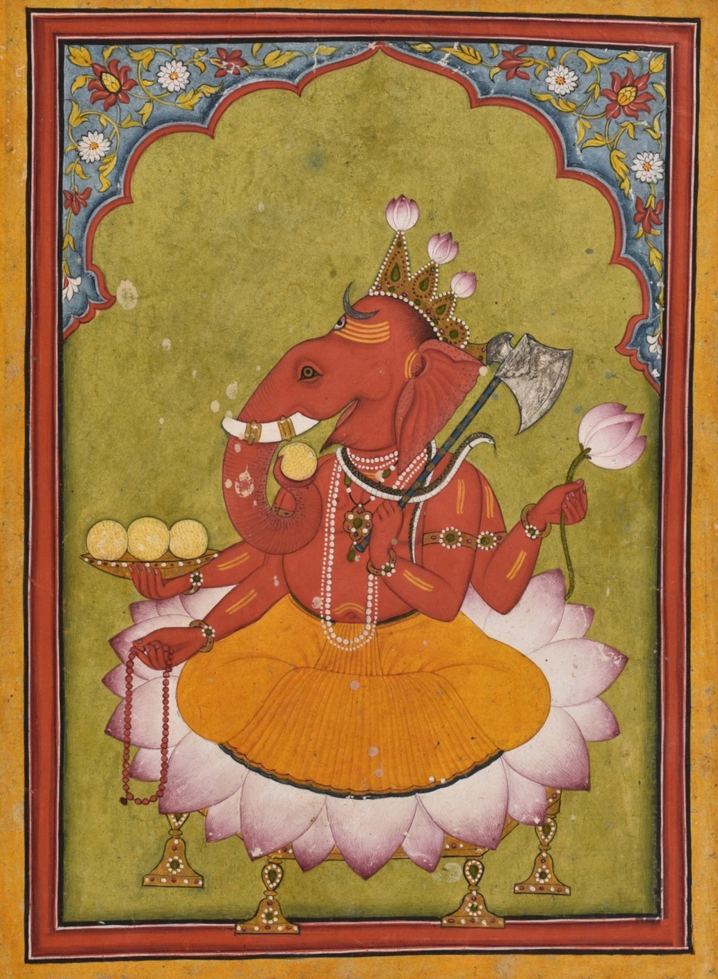 Ganesha getting ready to throw his lotus. Basohli miniature, circa 1730. National Museum, New Delhi. Source: This work is reproduced and described in Martin-Dubost, Paul (1997). Gaņeśa: The Enchanter of the Three Worlds. Mumbai: Project for Indian Cultural Studies. ISBN 81-900184-3-4, p. 73, which says: "Attired in an orange dhoti, his body is enitirely red. On the three points of his tiny crown, budding lotuses have been fixed. Gaṇeśa holds in his two right hands the rosary and a cup filled with three modakas (a fourth substituted by the curving trunk is just about to be tasted). In his two left hands, Gaṇeśa holds a large lotus above and an axe below, with its handle leaning against his shoulder. In the Mudgalapurāṇa (VII, 70), in order to kill the demon of egotism (Mamāsura) who had attacked him, Gaṇeśa Vighnarāja throws his lotus at him. Unable to bear the fragrance of the divine flower, the demon surrenders to Gaṇeśa."